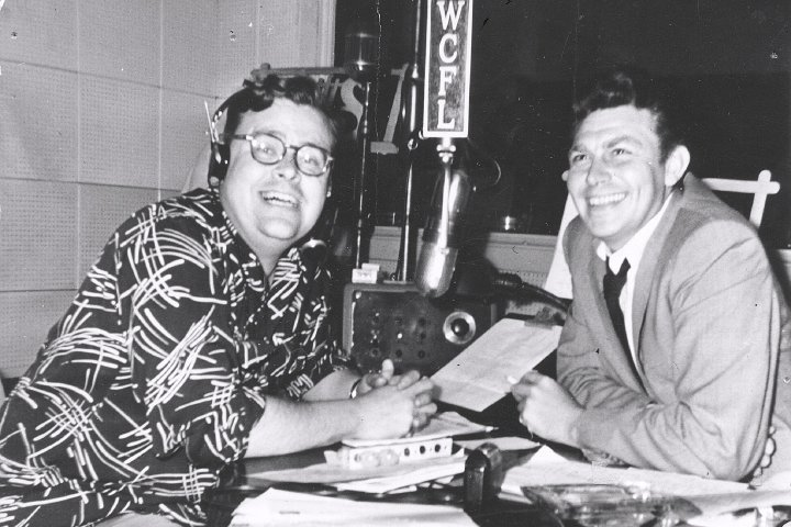 Deejay Art Hellyer interviewing Andy Griffith in WCFL-AM radio studio in Chicago in 1953